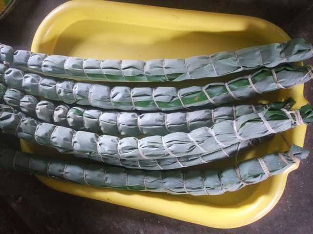 This is an image of food from Cameroon